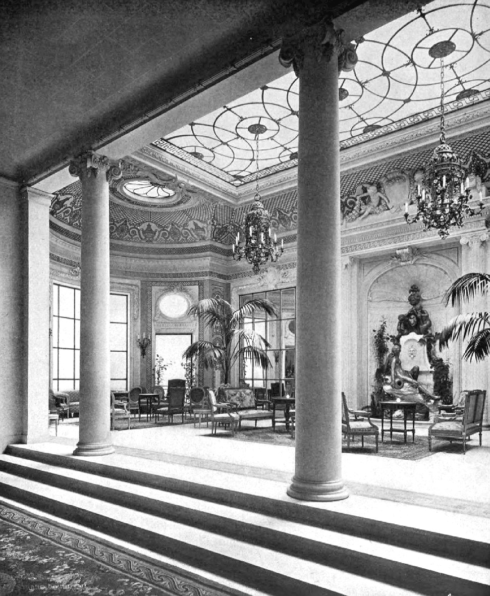 Photo of the Palm Court of the Ritz, London, as seen from a hotel corridor.